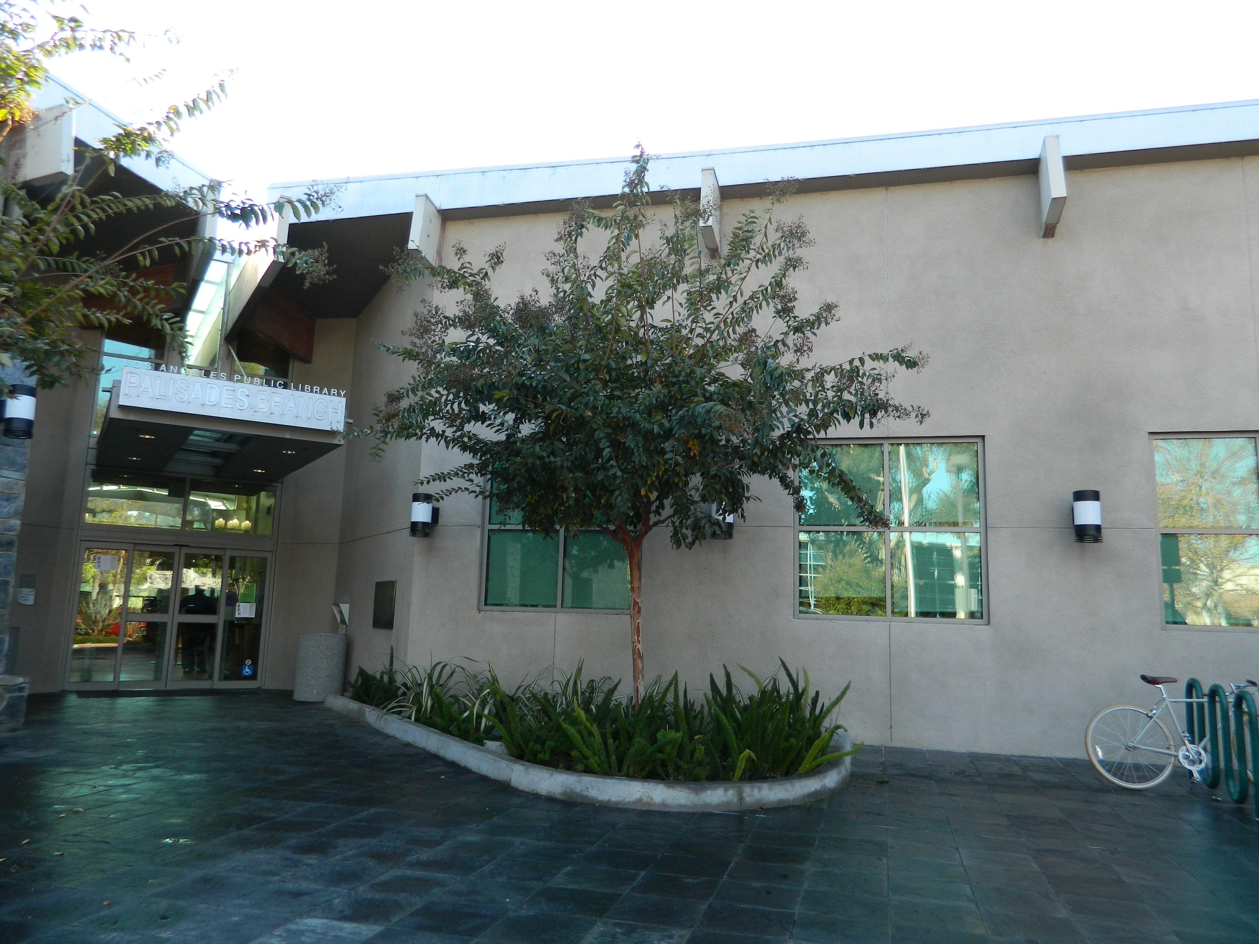 Pacific Palisades Branch of the Los Angeles Public Library — at 861 Alma Real Drive in Pacific Palisades, Los Angeles, CA 90272.